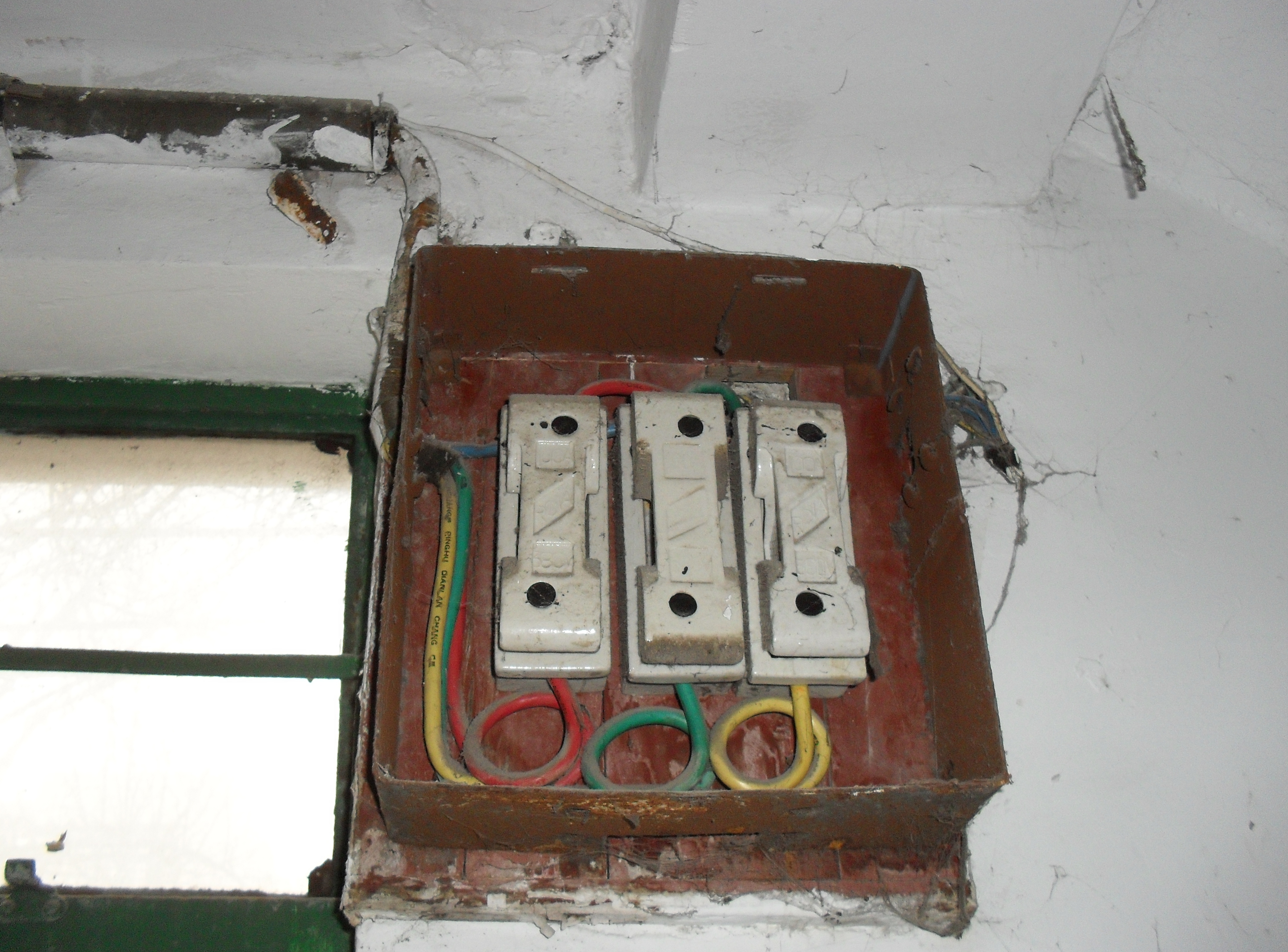 A 220 volt service panel with three (3) 100 Amp porcelain fuses. (Location: China)